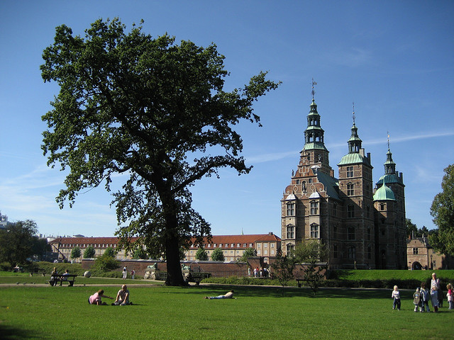 Rosenborg Castle Garden with the castle and the varracks